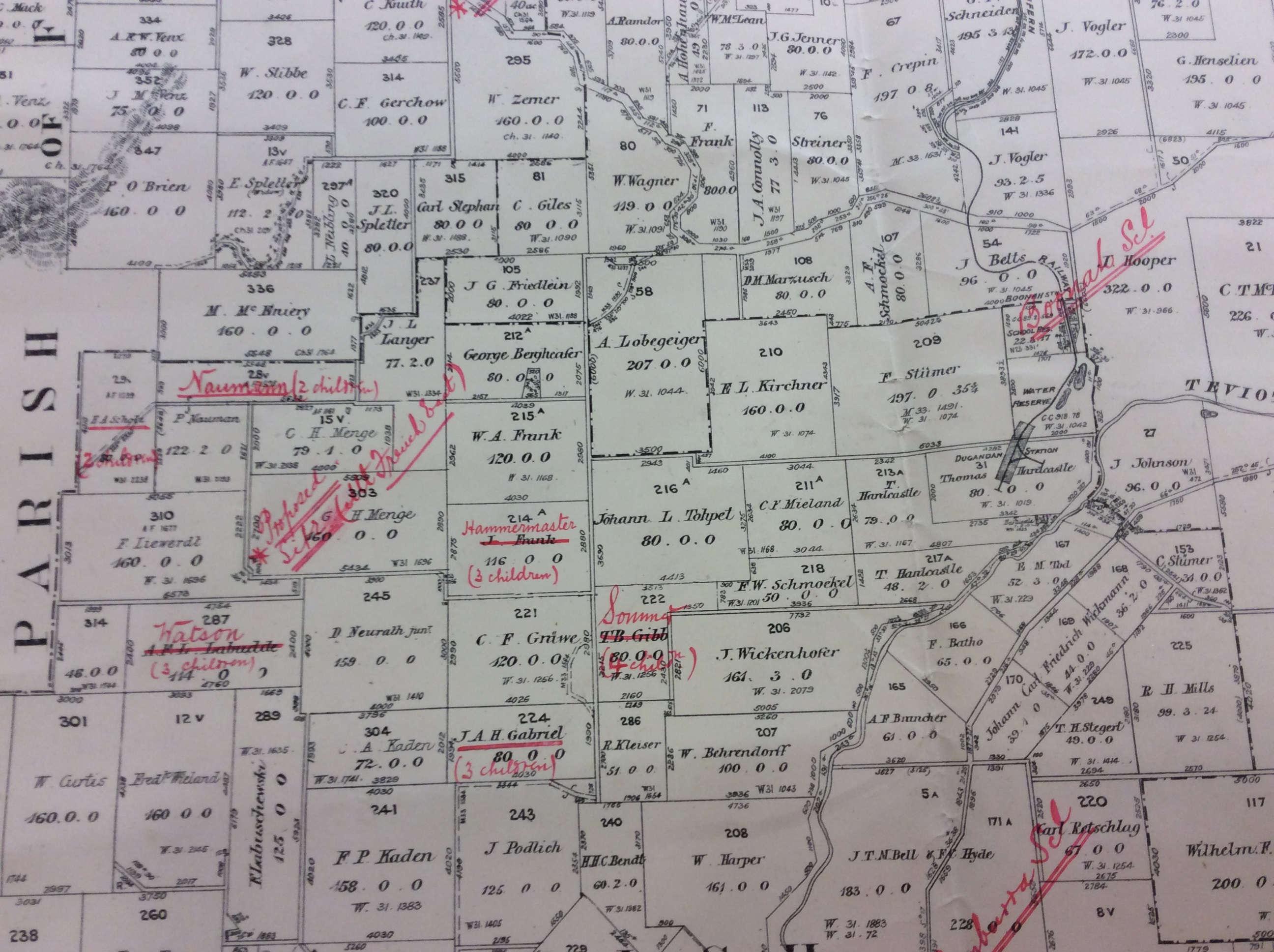 1890 map of Dugandan with hand-written families and number of children